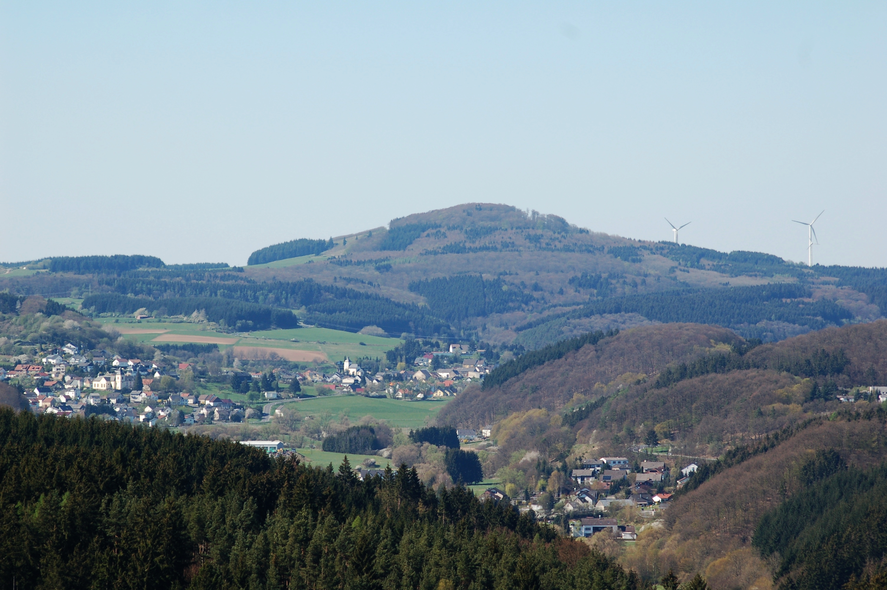 The Erresberg (698.8 m above NN) a mountain in the German hill range of the Eifel seen from the foot of the Mäuseberg (am Weinfelder Maar)